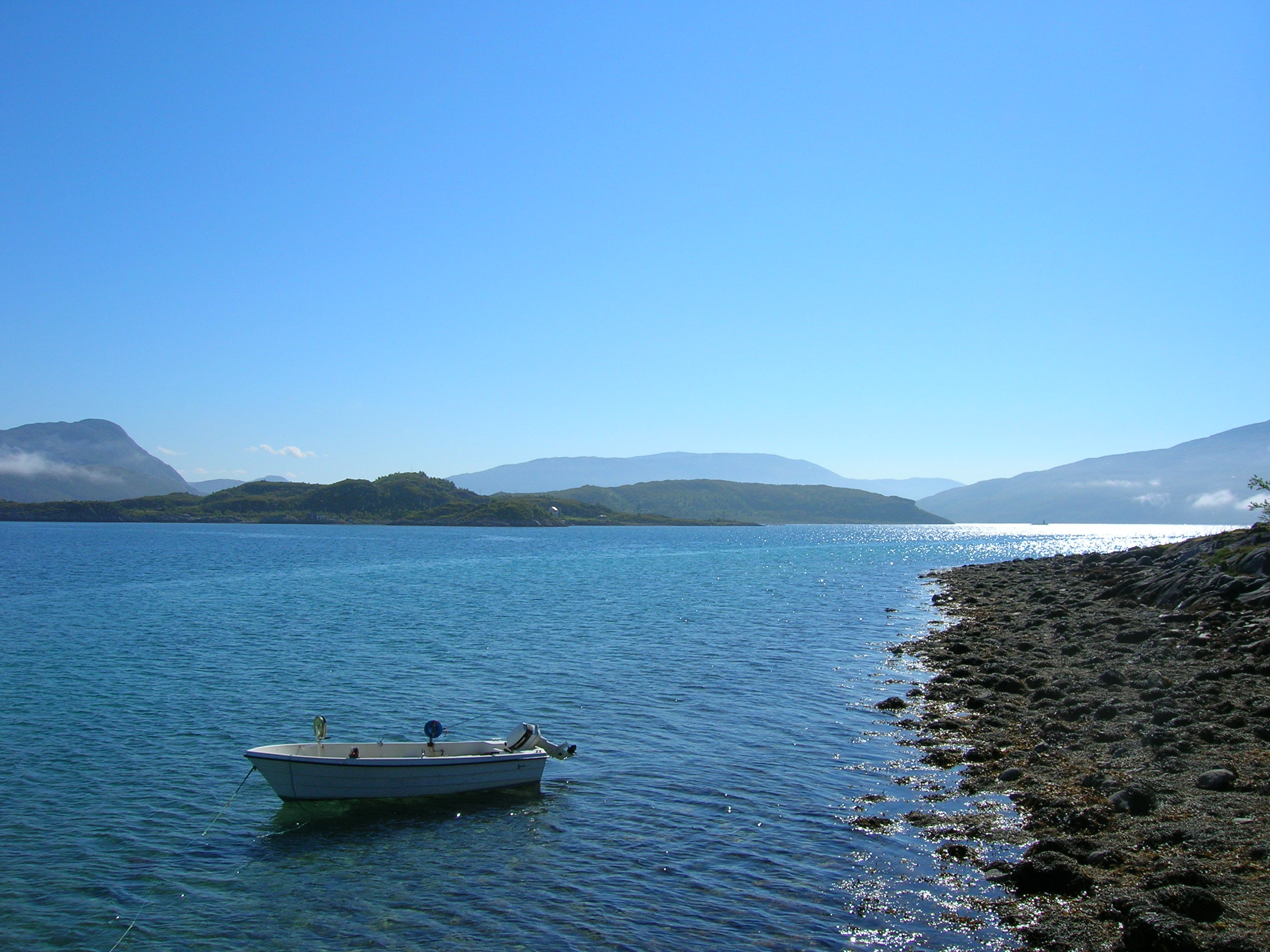 Vågsøya seen from Vengsøya